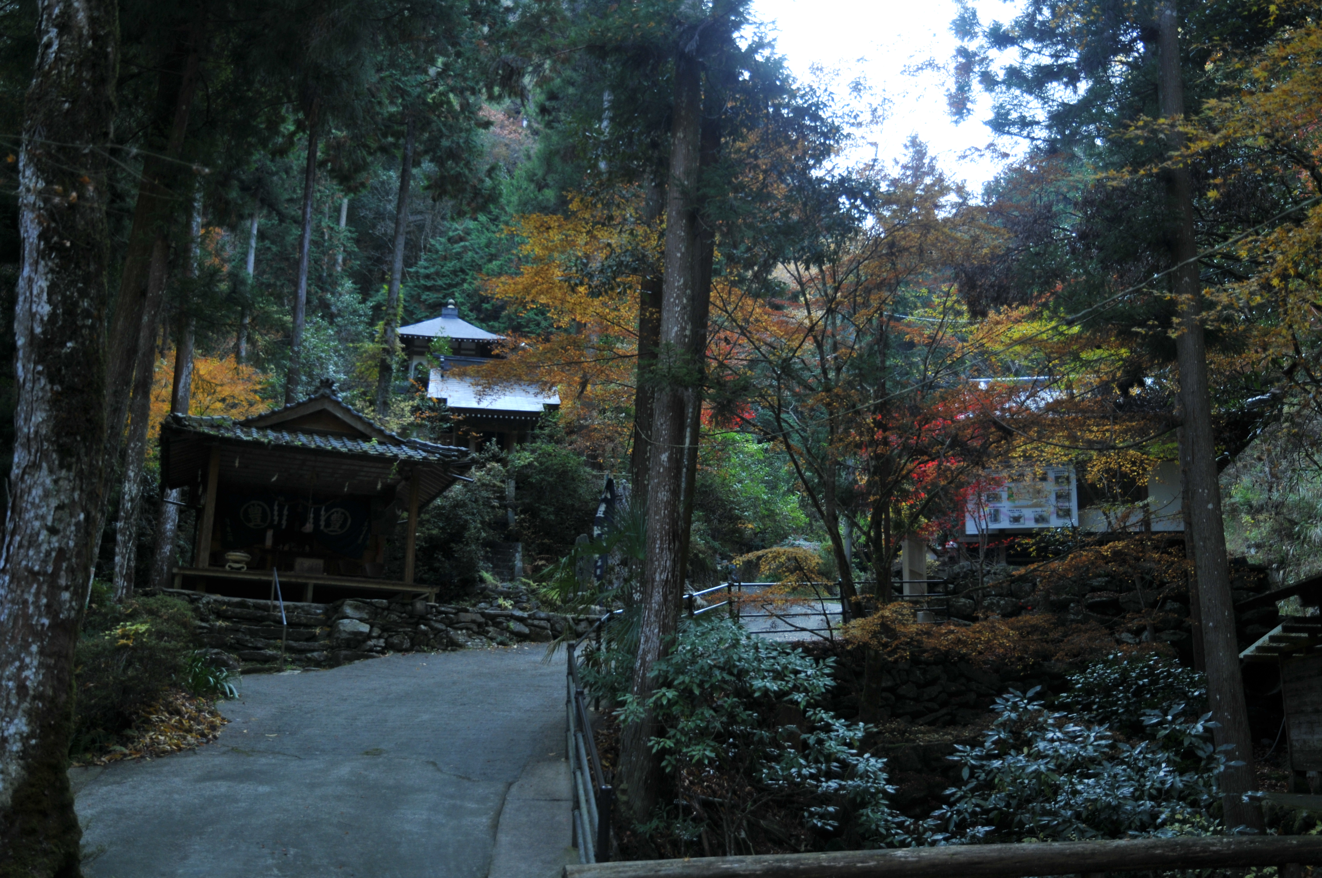 View of Ishizuchi-dera